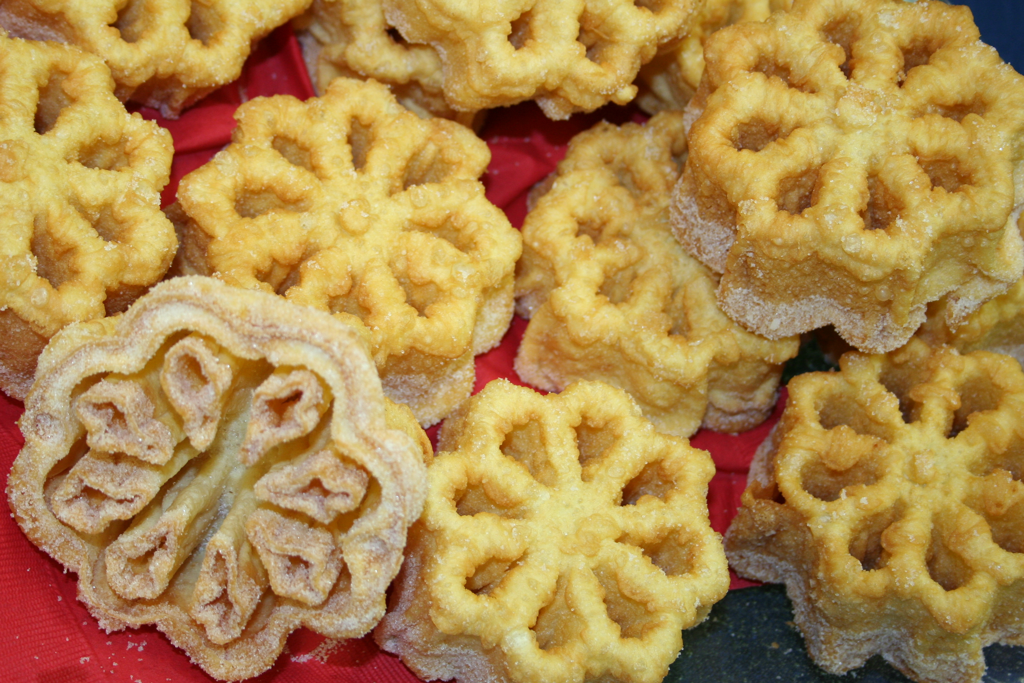 A dozen rosettes from Otto's Bakery in Byron, Minnesota